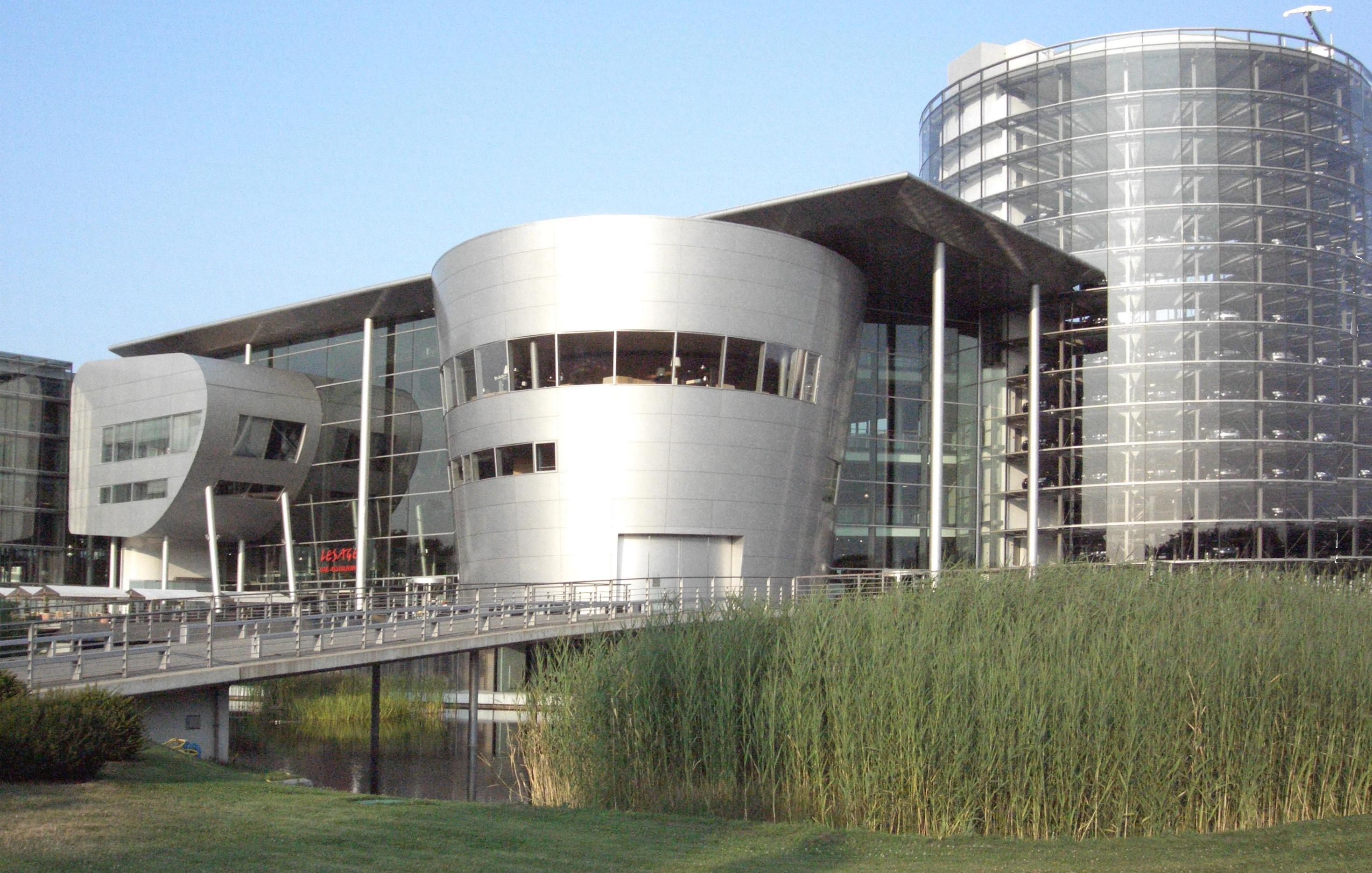 Volkswagen automobile factory Transparent Factory in Dresden in Saxony, Germany.